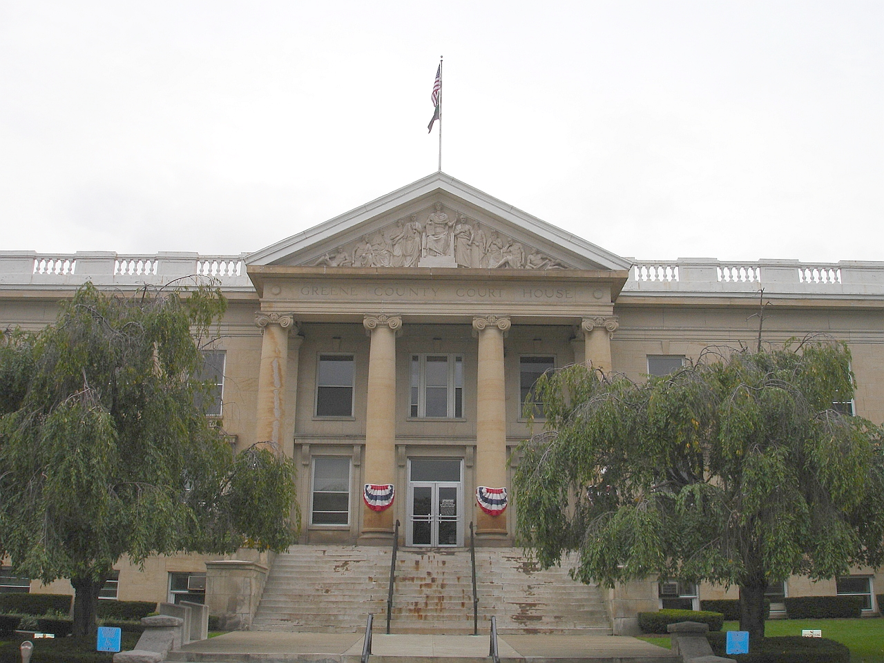 I took this photo myself in October, 2006